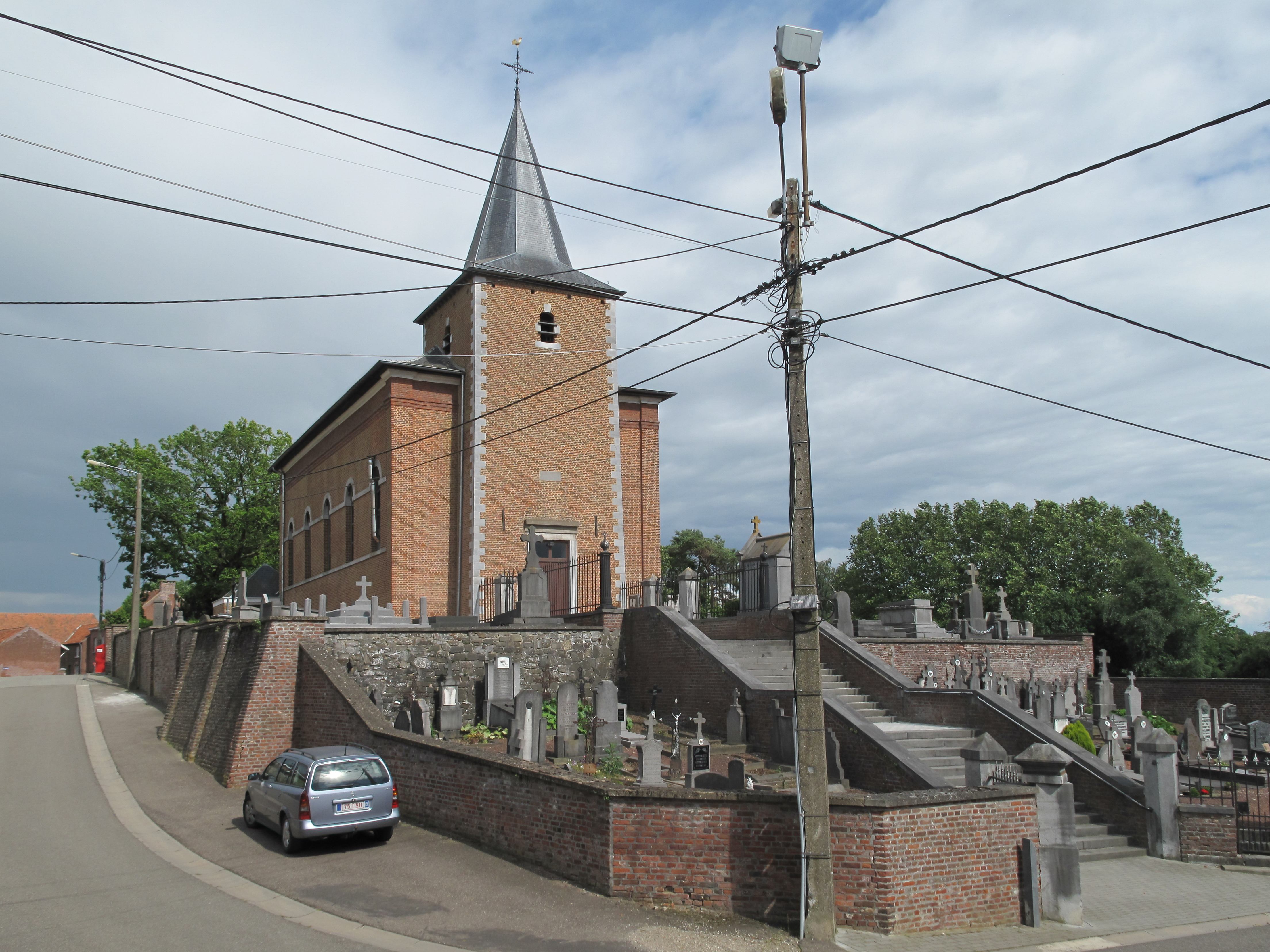 Vechmaal-Heers, church: de Sint Martinuskerk